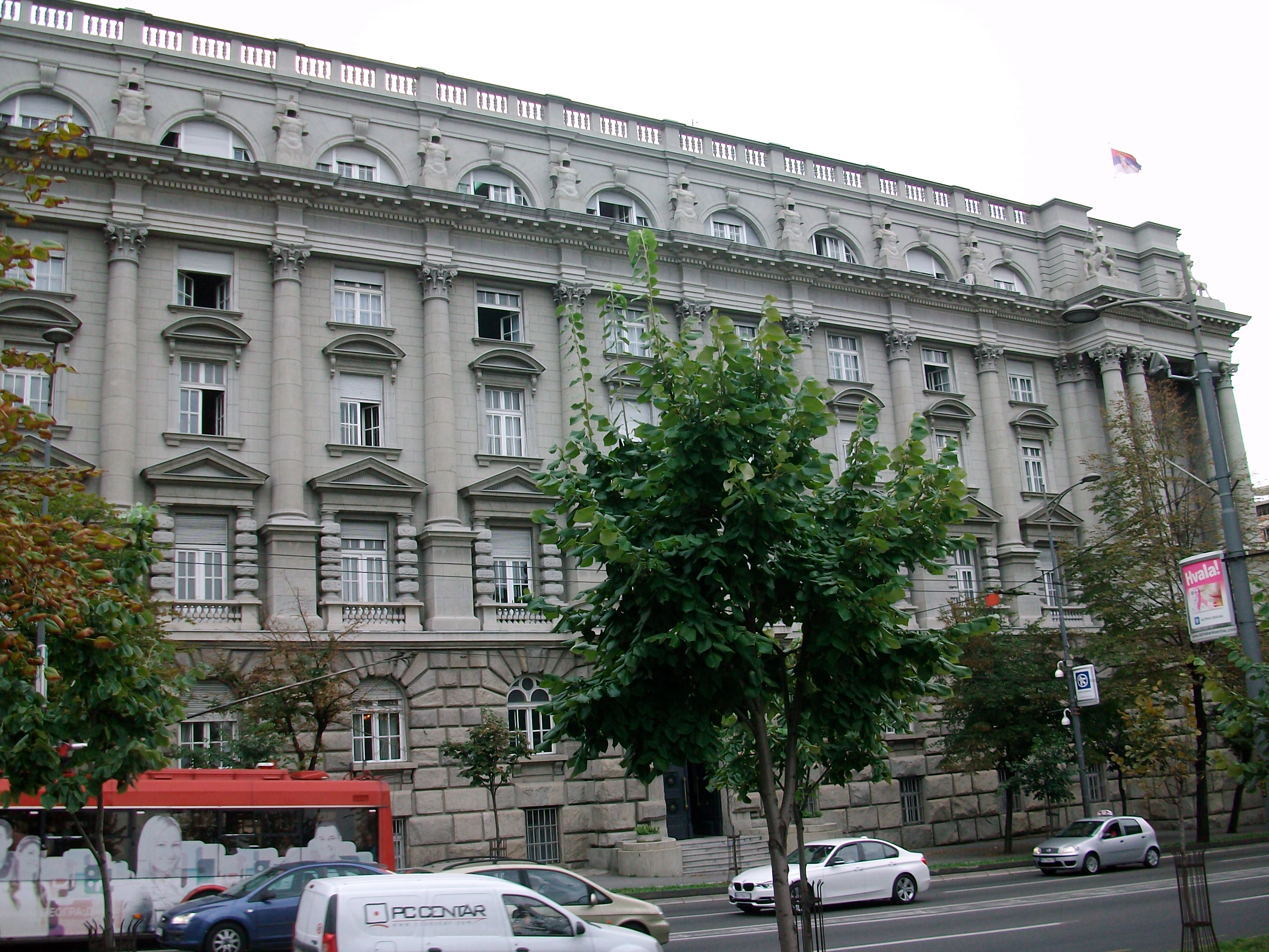 old general staff building Српски (ћирилица): Зграда генералштаба Vasily Baumgarten (1879–1962) Alternative namesRussian: Василий (Вильгельм) Фёдорович БаумгартенDescriptionRussian architectDate of birth/death30 October 1879 (17 October 1879 in Julian calendar)13 May 1962Location of birth/deathSaint Petersburg, RussiaBuenos Aires, ArgentinaWork locationSaint Petersburg, Belgrade etc.Authority control : Q20771008